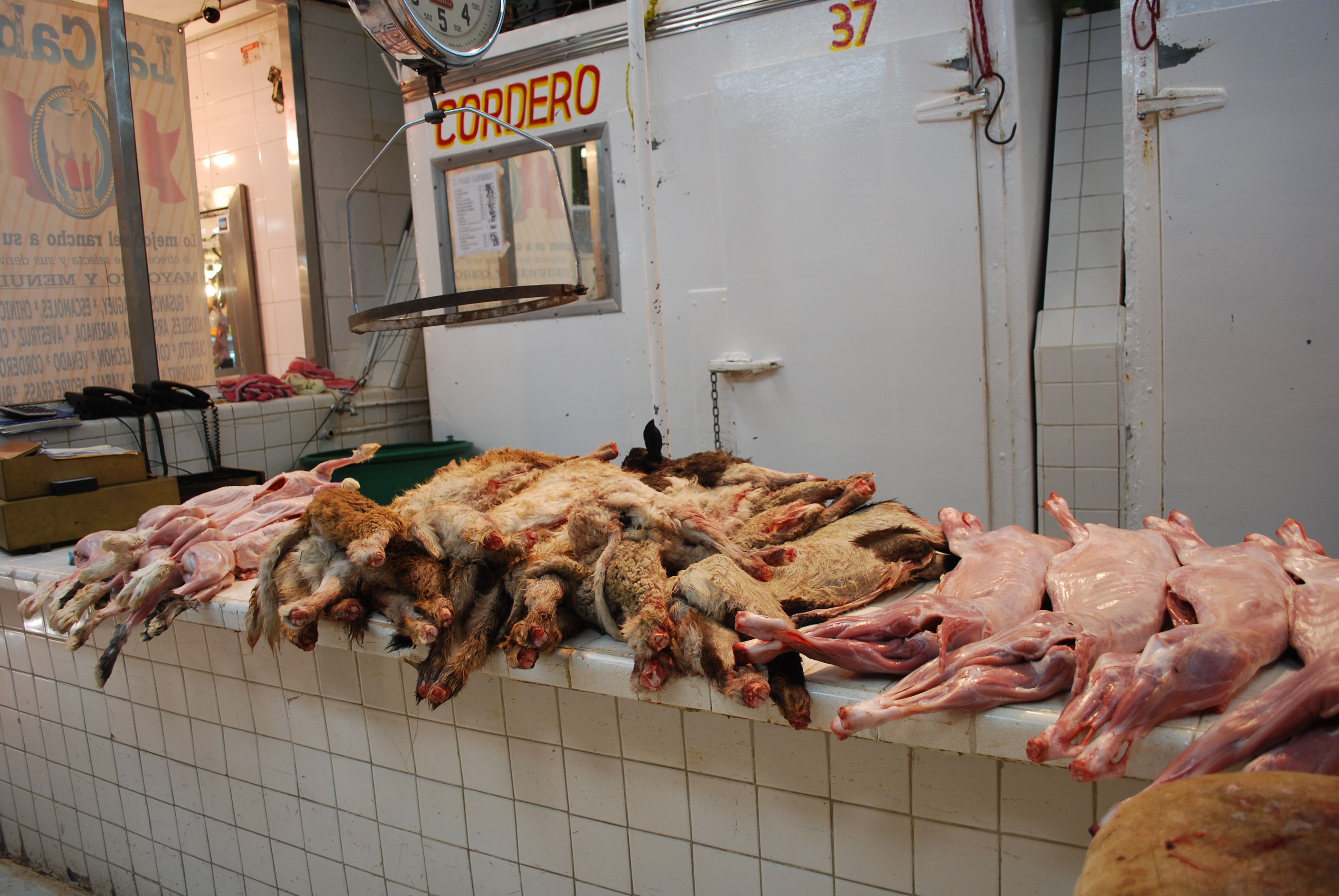 Dressed and partially dressed baby goats for sale at the San Juan gourmet food market in Mexico City